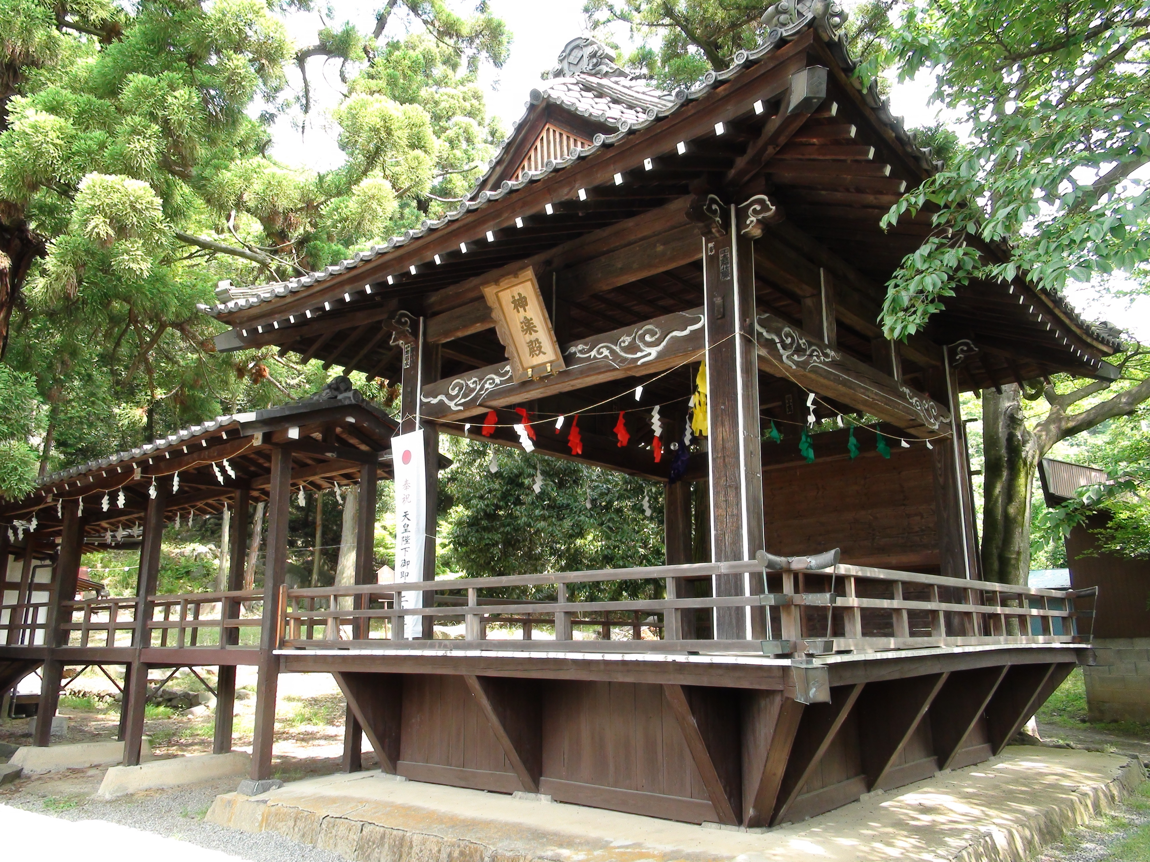 Yamanashi-oka shrine 2 Fuefuki city